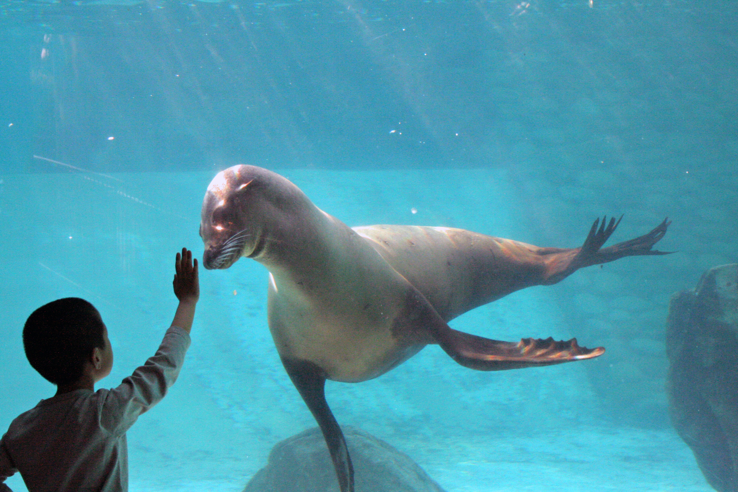 兵庫県神戸市灘区にある王子動物園。 カリフォルニアアシカ と少年。(OJI Zoo located in Nada ward of Kobe City, Hyogo Prefecture. Sea lions and boy.)